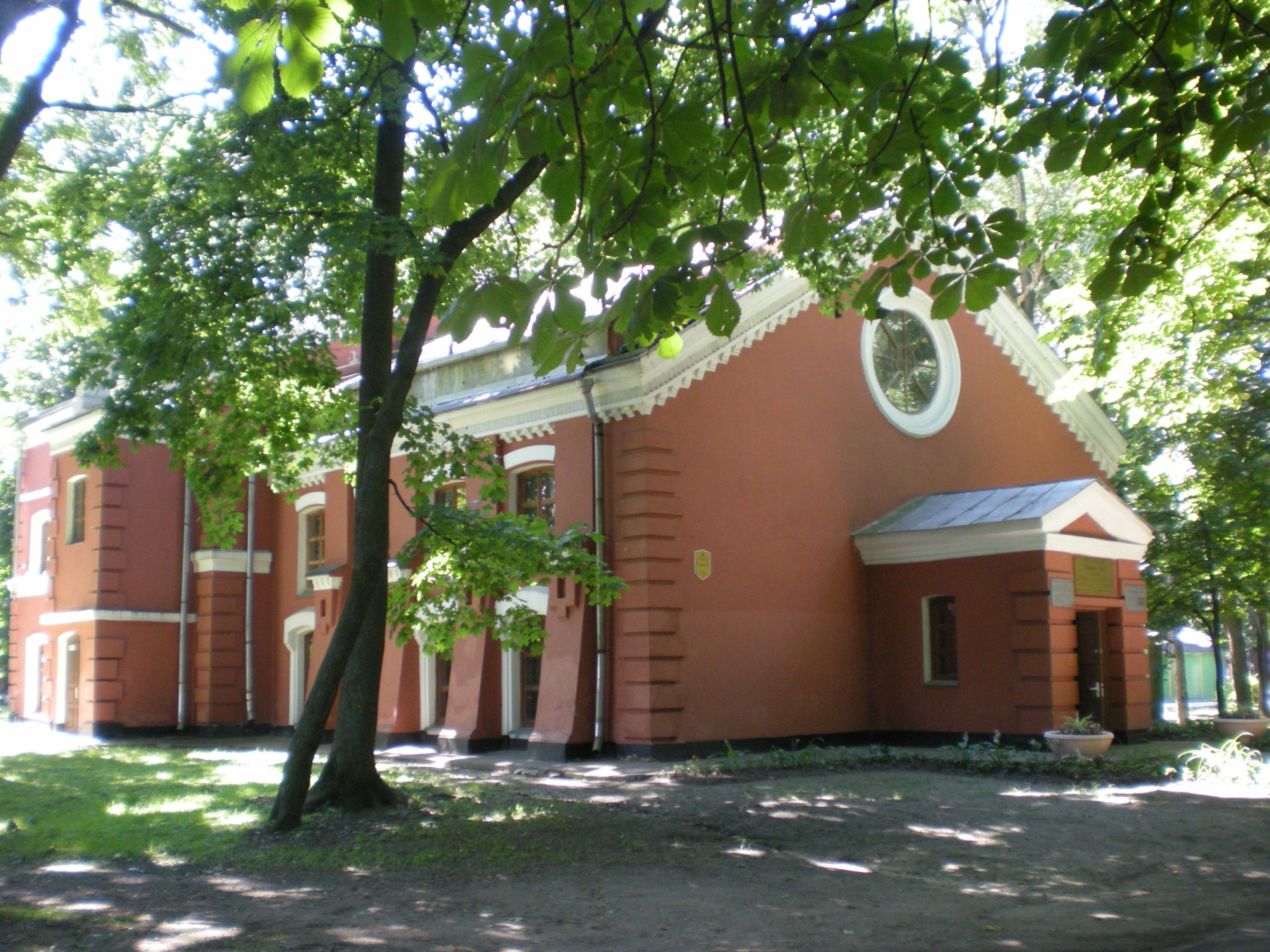 Greenhouse in Gomel